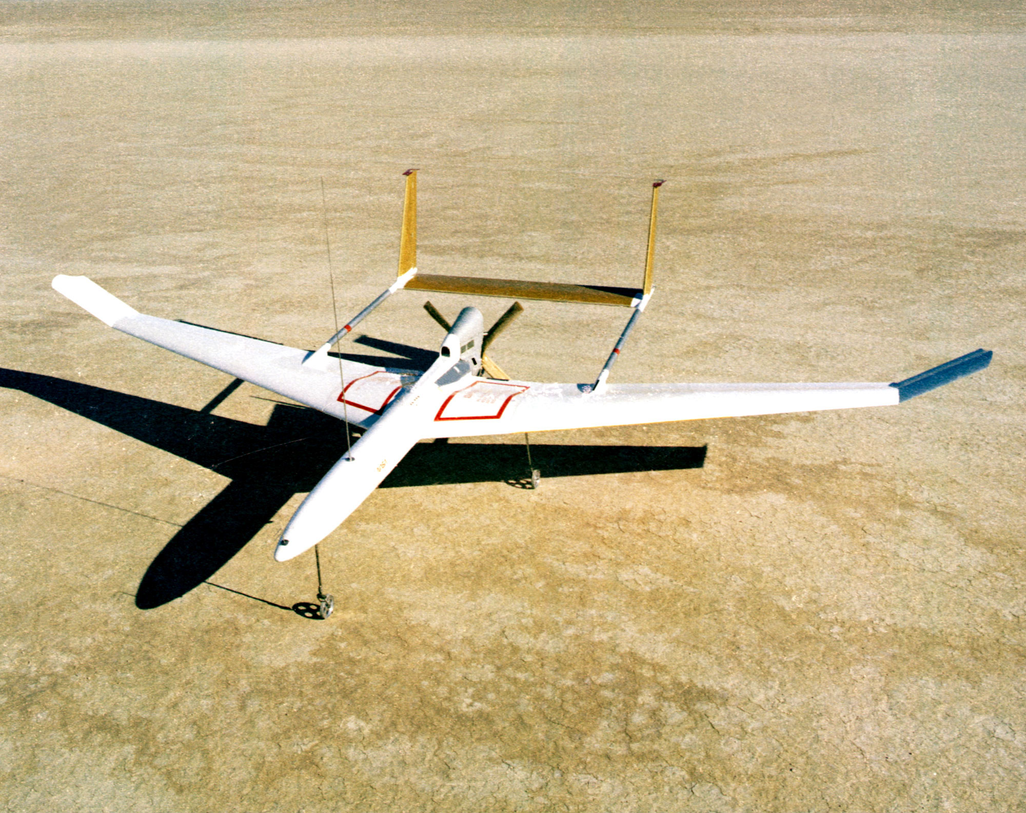 The third remotely-piloted Mini-Sniffer research vehicle rests on the lakebed adjacent to the Dryden Flight Research Center, Edwards, California. This view shows the wing shape, hydrazine engine, and the tail booms.